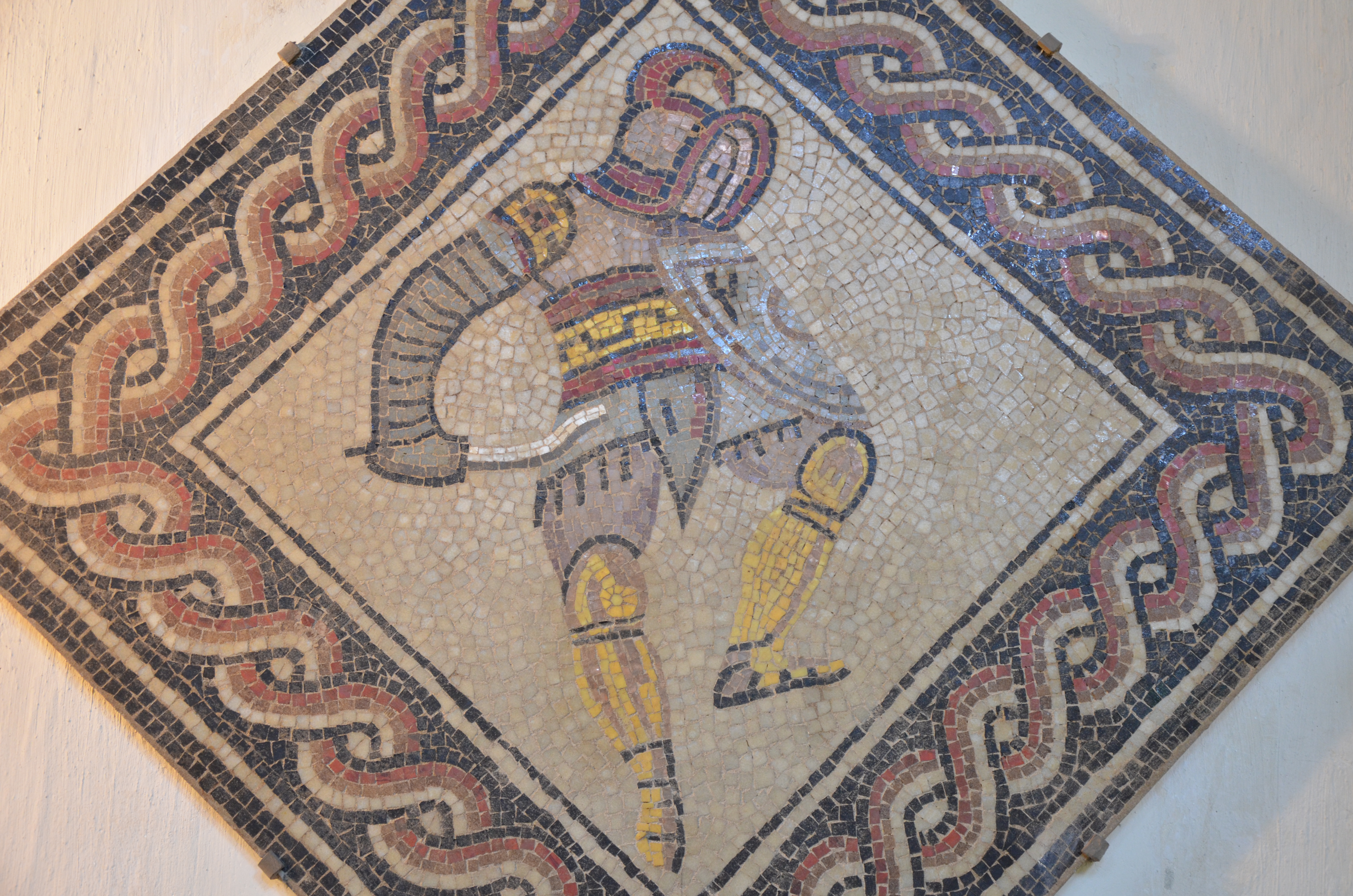 The only surviving medaillion of the Thrace mosaic, found in Reims in 1860 but destroyed during WW1, Musée Saint-Rémi, Reims, France (Durocortorum)